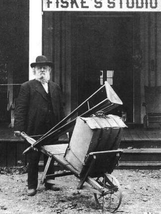 Photographer George Fiske outside his studio, with photographic equipment loaded onto a wheel barrow.